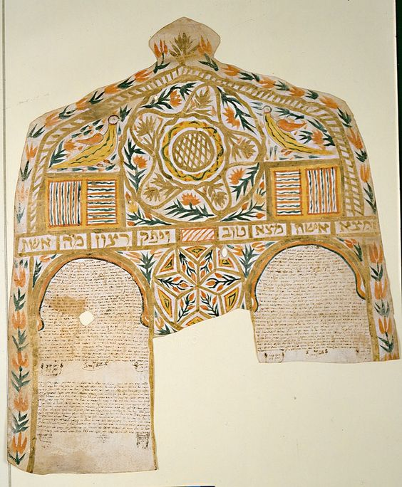 Ketubah, Kastoria